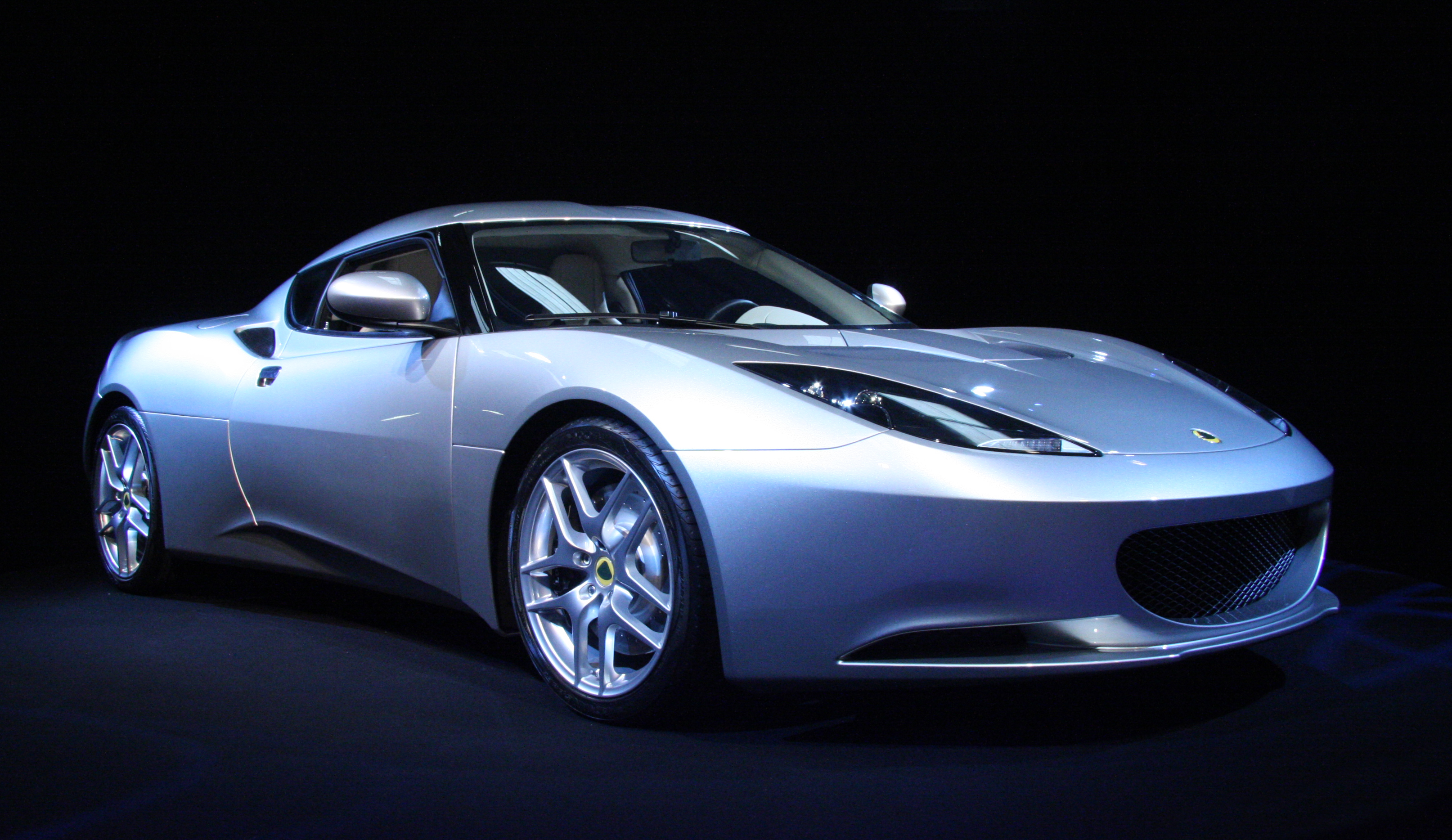 Lotus 60th Celebration